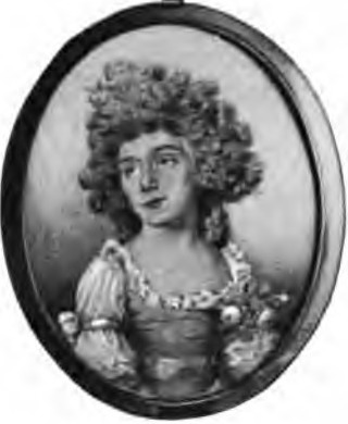 Book digitized by Google from the library of Harvard University and uploaded to the Internet Archive by user tpb.